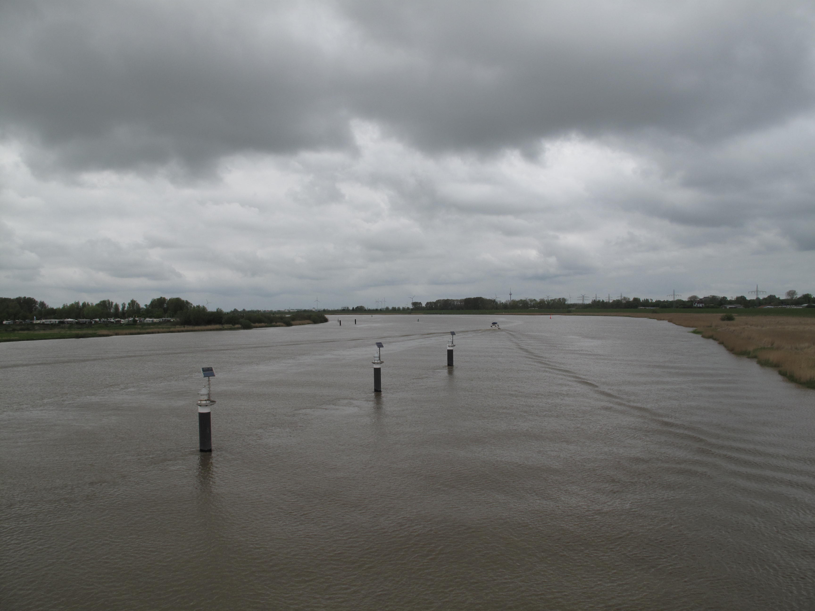 near Leer, river: the Eems